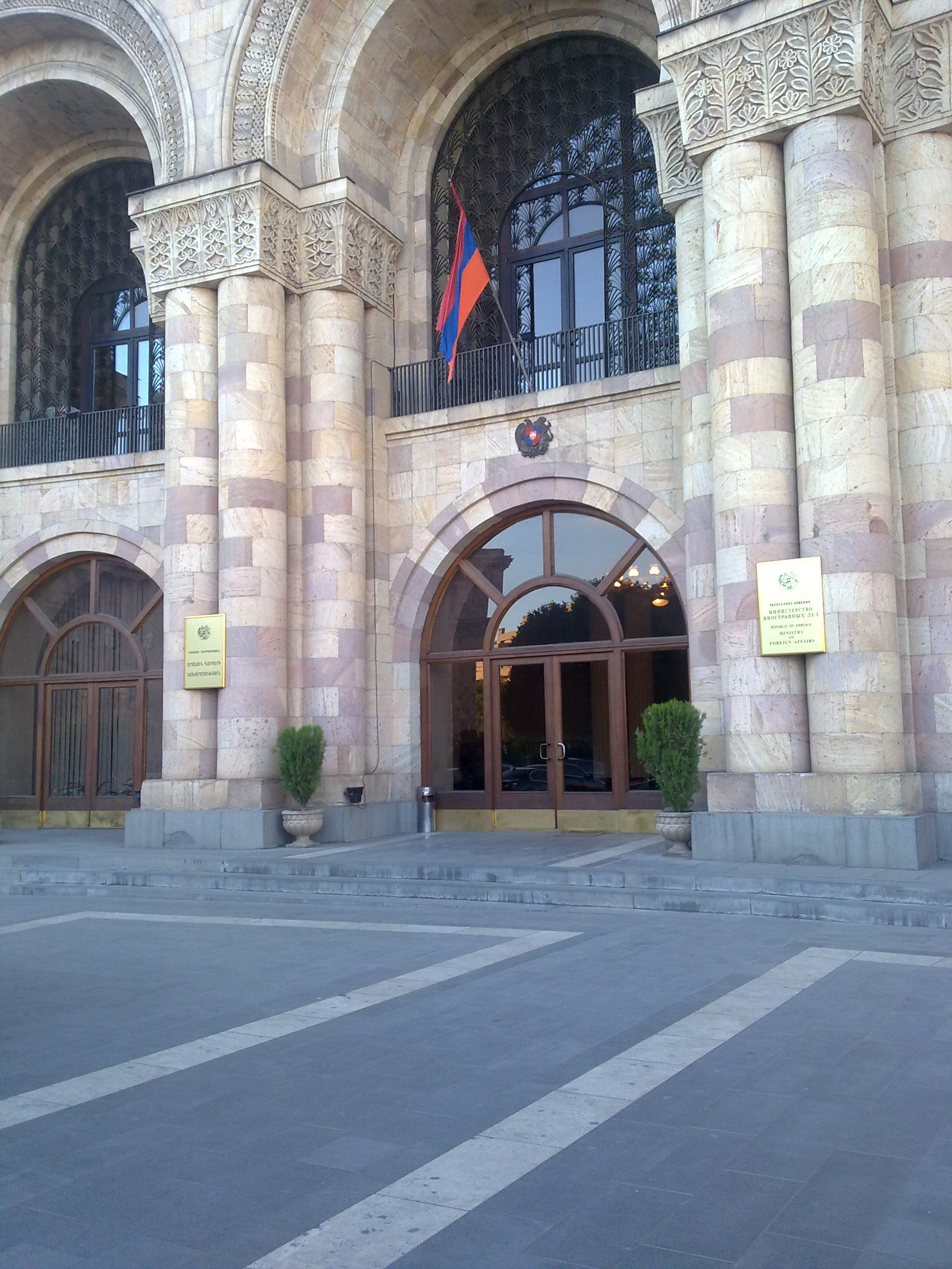 Main entrance into the building of the Ministry of Foreign Affairs of Republic of Armenia.